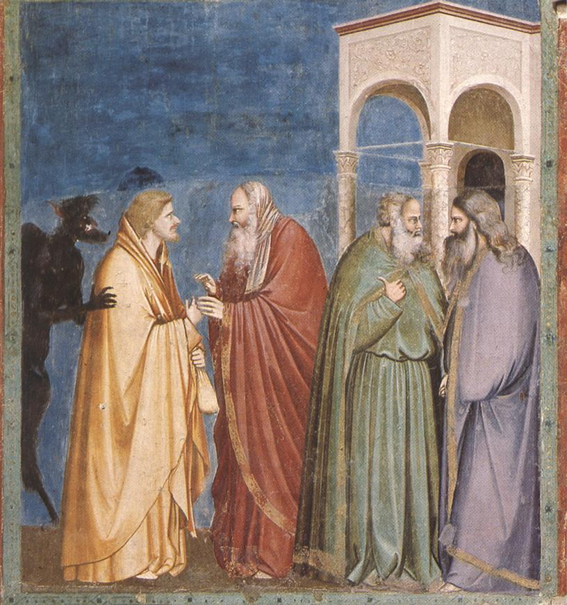 Life of Christ